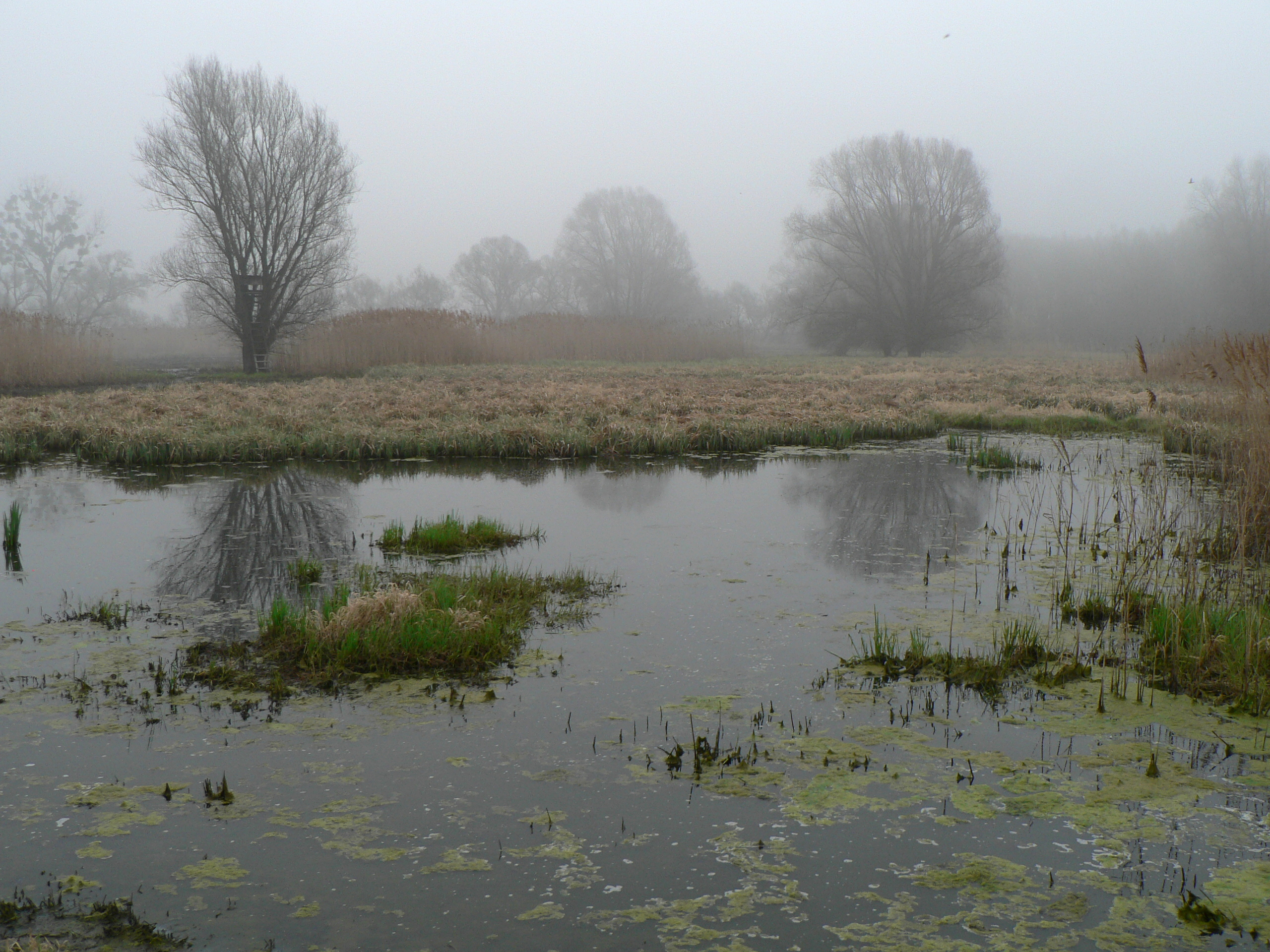 Basnov wetland near Strizovice.